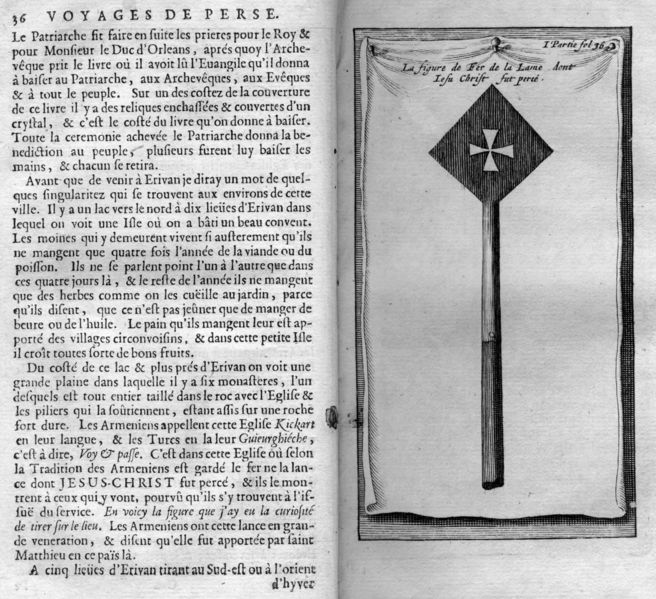 The French traveler Jean-Baptiste Tavernier's sketches